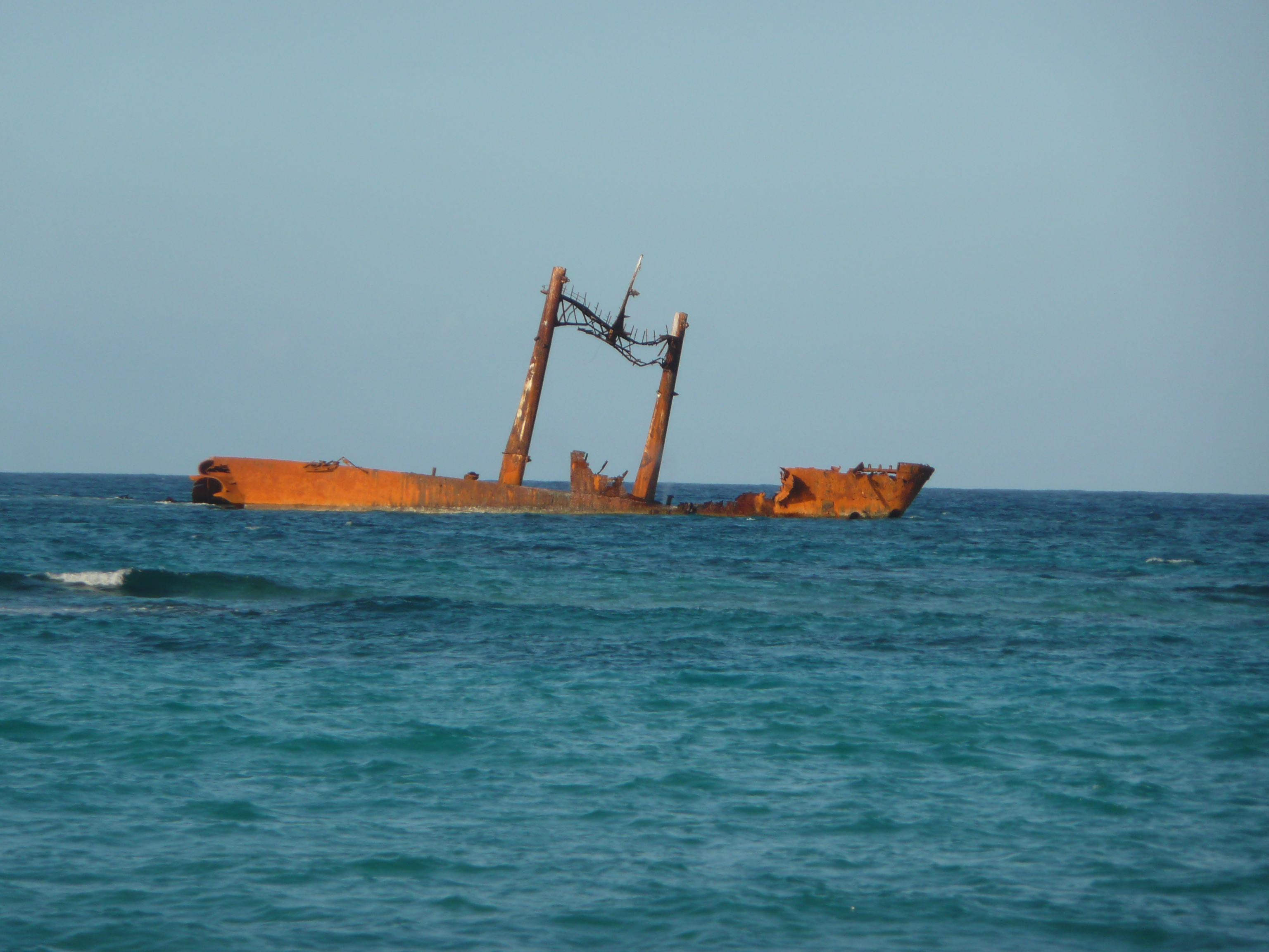 The Astron as a shipwreck just off the coast of Punta Cana, Dominican Republic.